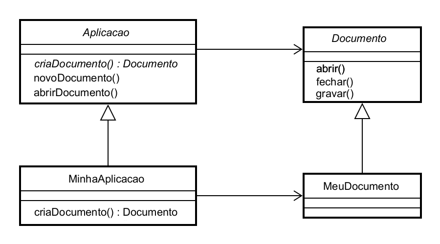 Factory Method Design Pattern Sample